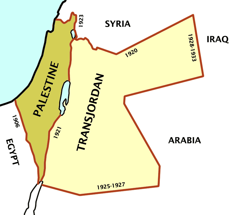 The region covered by the Mandate for Palestine during the 1930s and 1940s